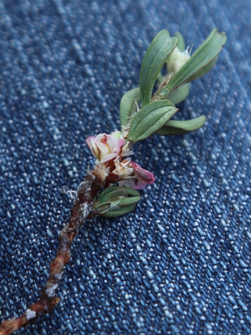 Shasta knotweed (Polygonum shastense), closeup showing the distinctive leaves, folded in half when emerging and later with two very distinct folds or veins on the top side. At 10,380ft along trail between Saddlebag and Steelhead Lakes in 20-Lakes Basin, Hoover Wilderness, Sierra Nevada mountains, California USA.